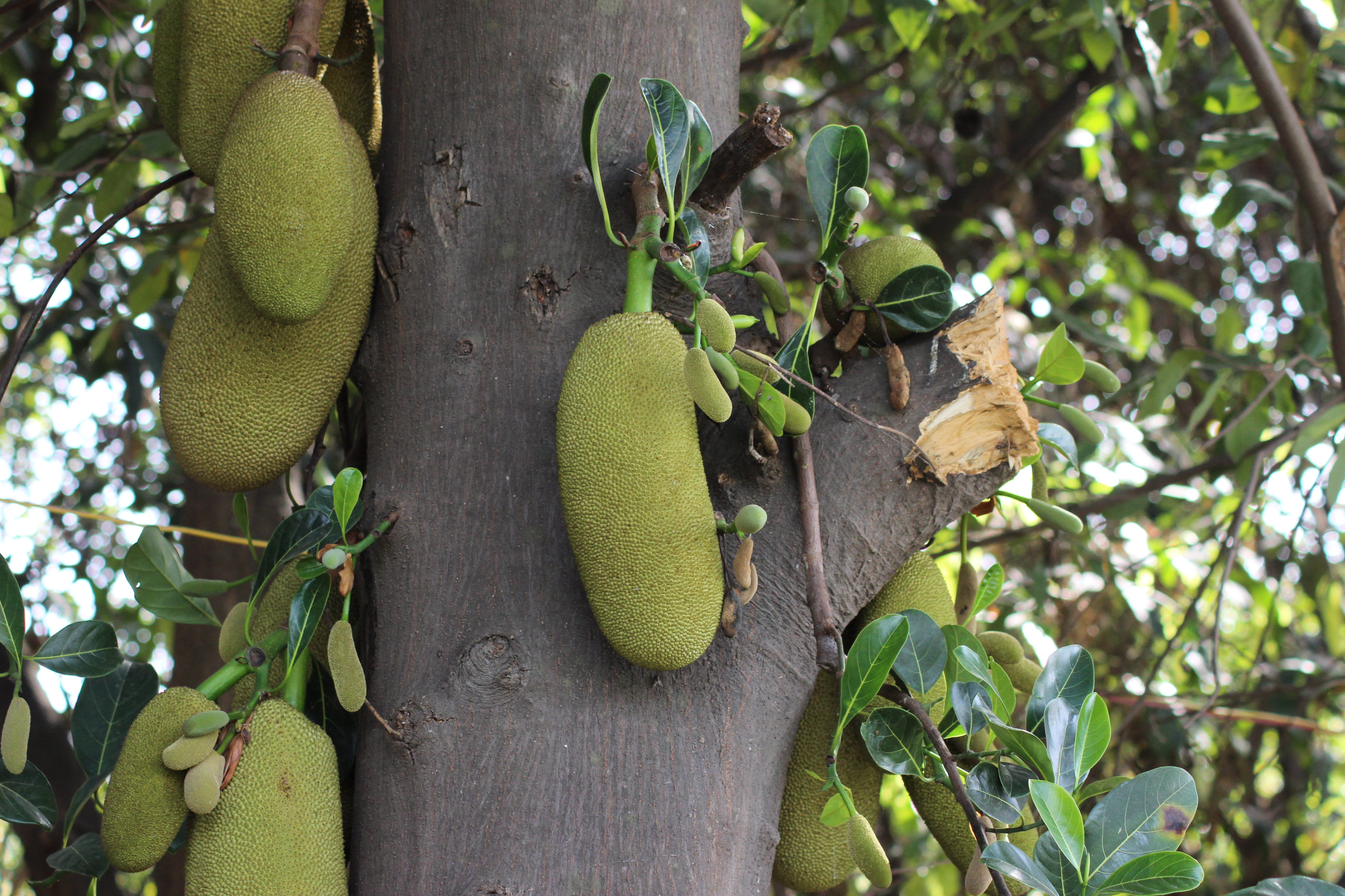 Jackfruit tree with fruit